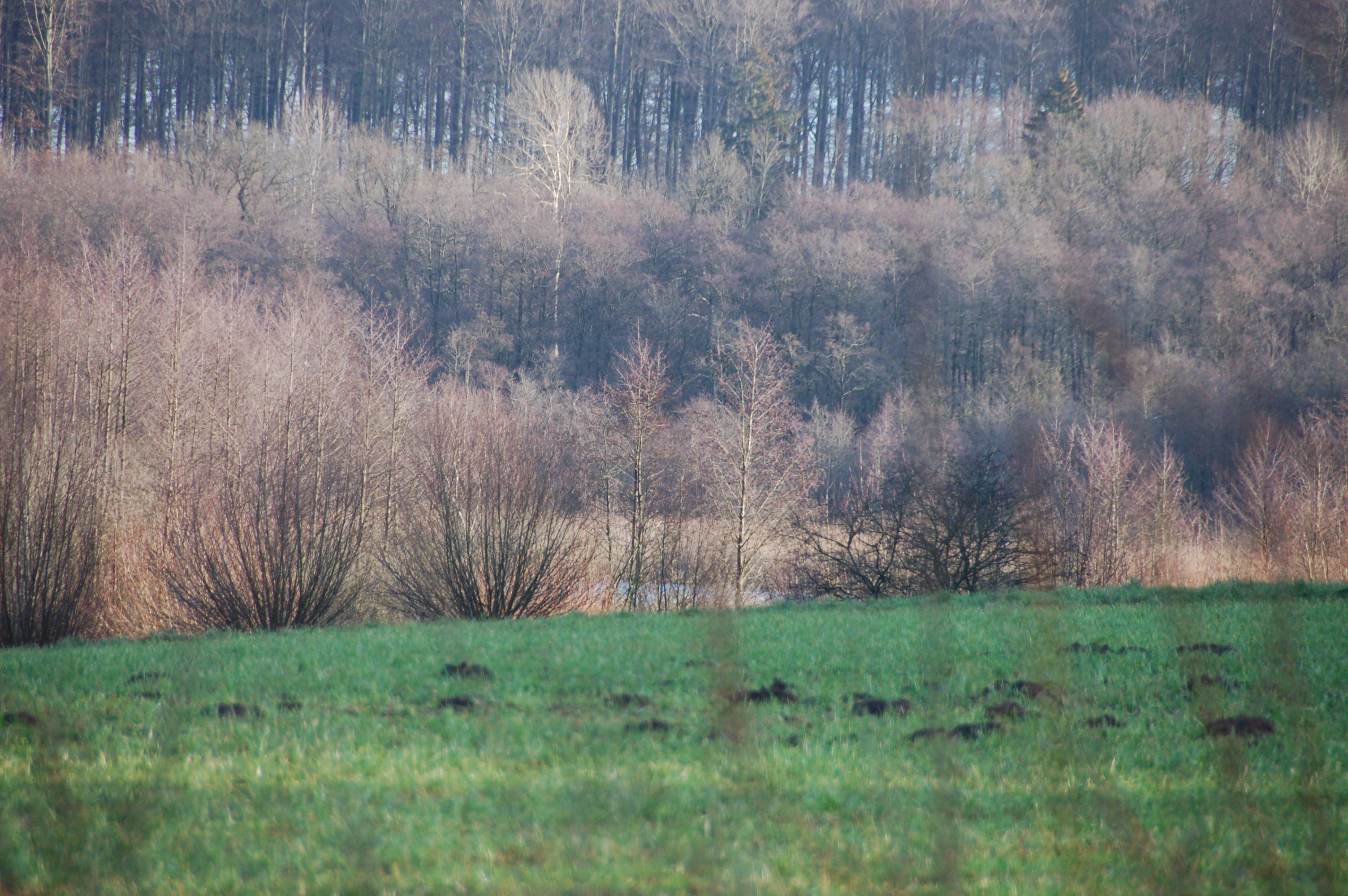 Nature reserve Fuhlensee und Umgebung.